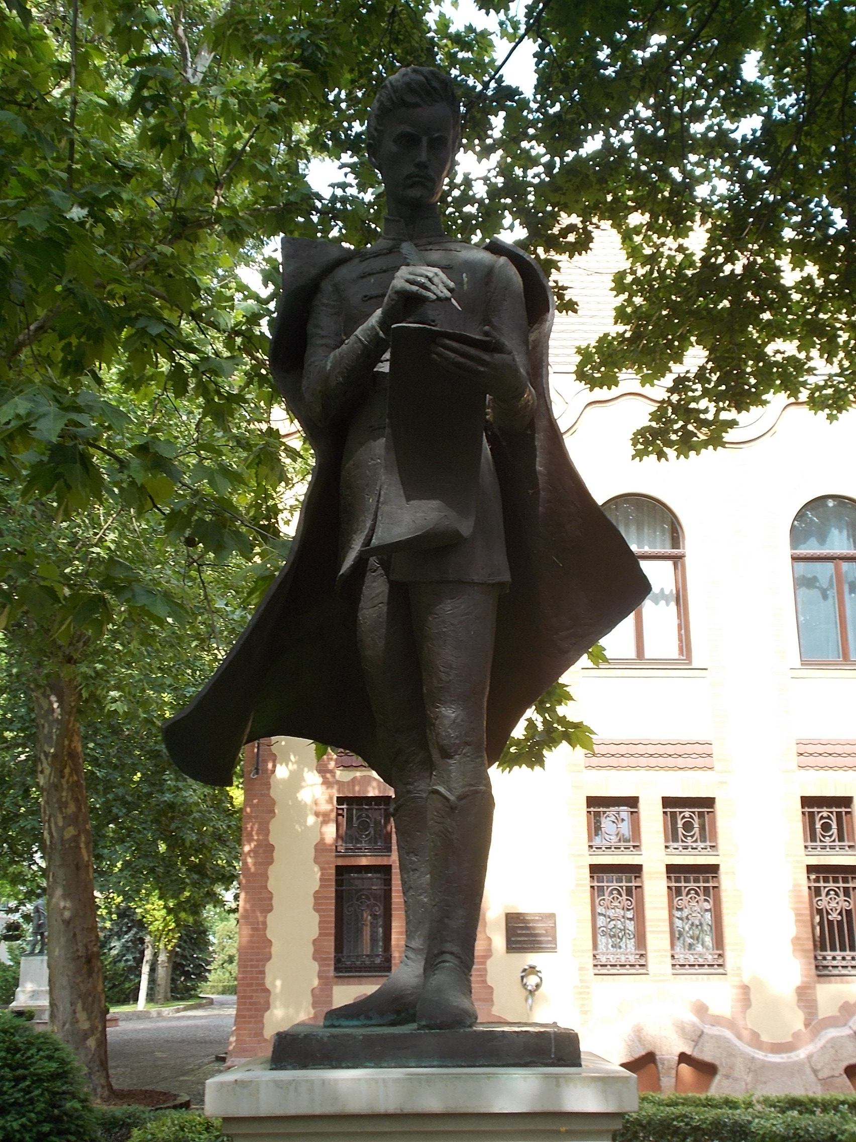 Sándor Petőfi by Márk Lelkes (2002 bronze statue, standing man wear a 'flying' cape, in his hand with pen, writing in a book) - Kossuth Lajos square, 20th district, Budapest.